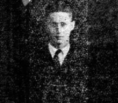 Image of Carnegie Tech yearbook staff member Robert Schmertz, circa 1919